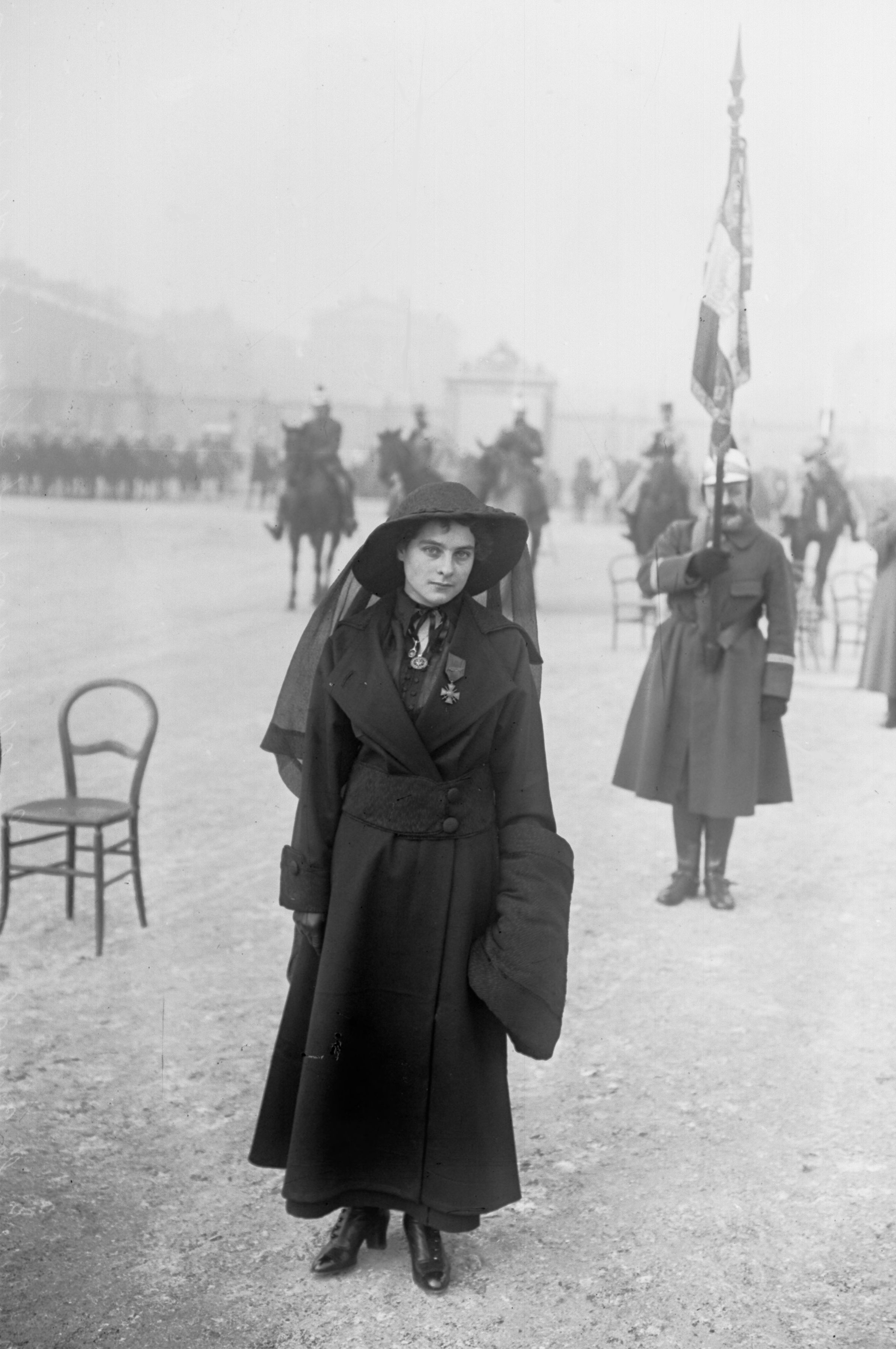 Émilienne Moreau (1898-1971) receiving the Croix de Guerre at Versailles in 1915.